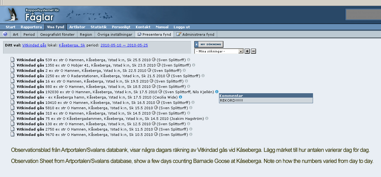 Observation Sheet from Artportalen/Svalans database.